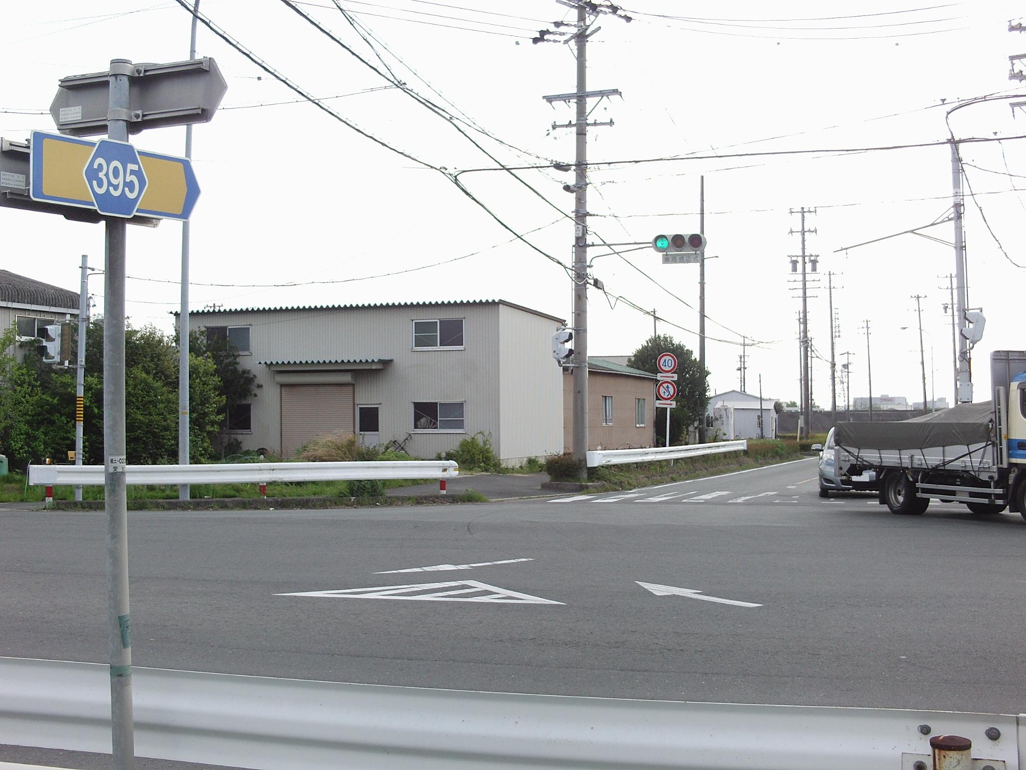 The Aichi Prefectural Road Route 395 at the Rinkaikoen Intersection in Toyokawa City